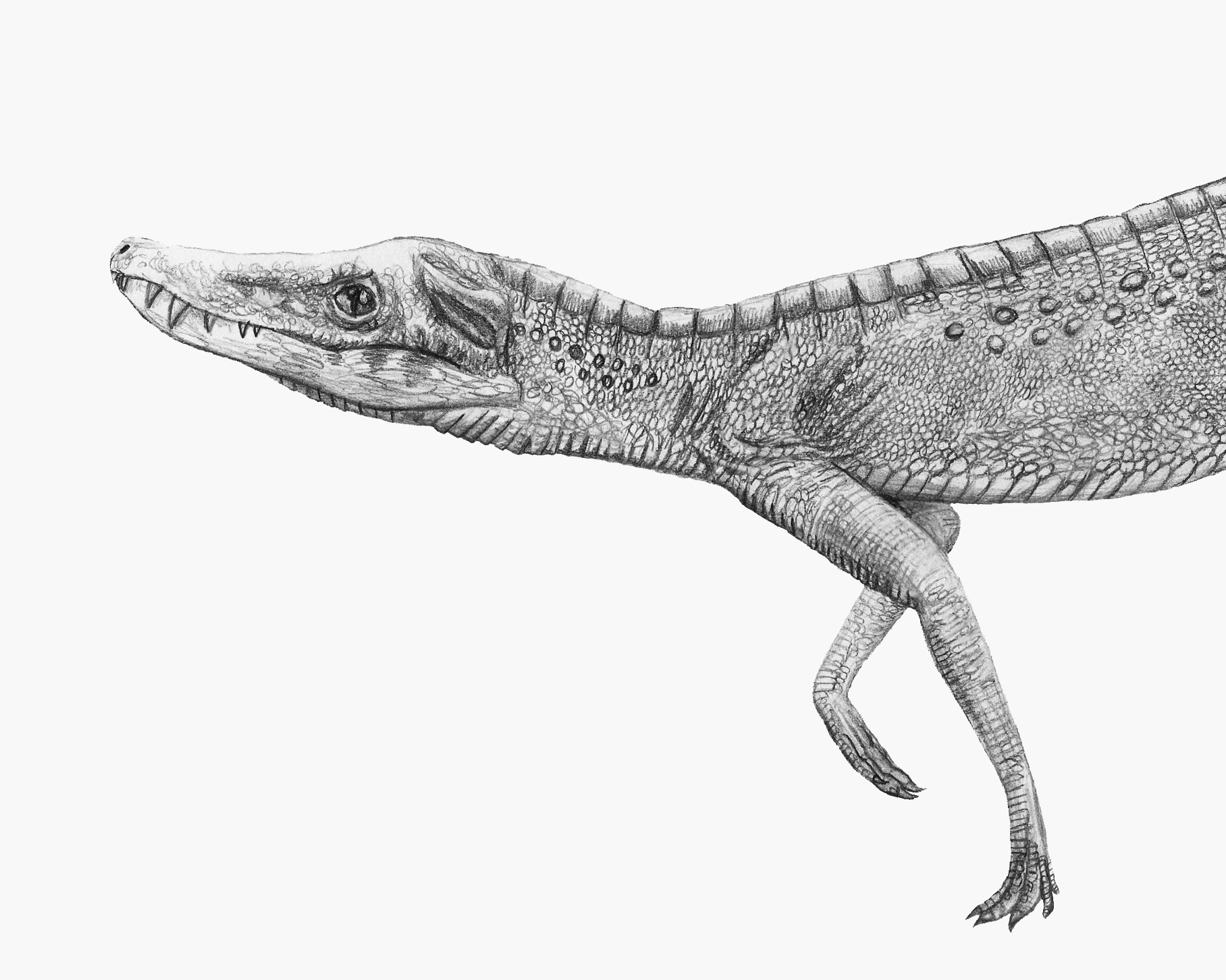 Life restoration of Junggarsuchus sloani. Based on Figure 3 of "A Middle Jurassic 'sphenosuchian' from China and the origin of the crocodylian skull" by James M. Clark, Xing Xu, Catherine A. Forster, and Yuan Wang (Nature 430: 1021-1024).